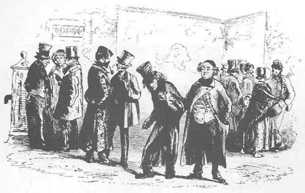 Illustration by Phiz for the Charles Dickens' work Little Dorrit.